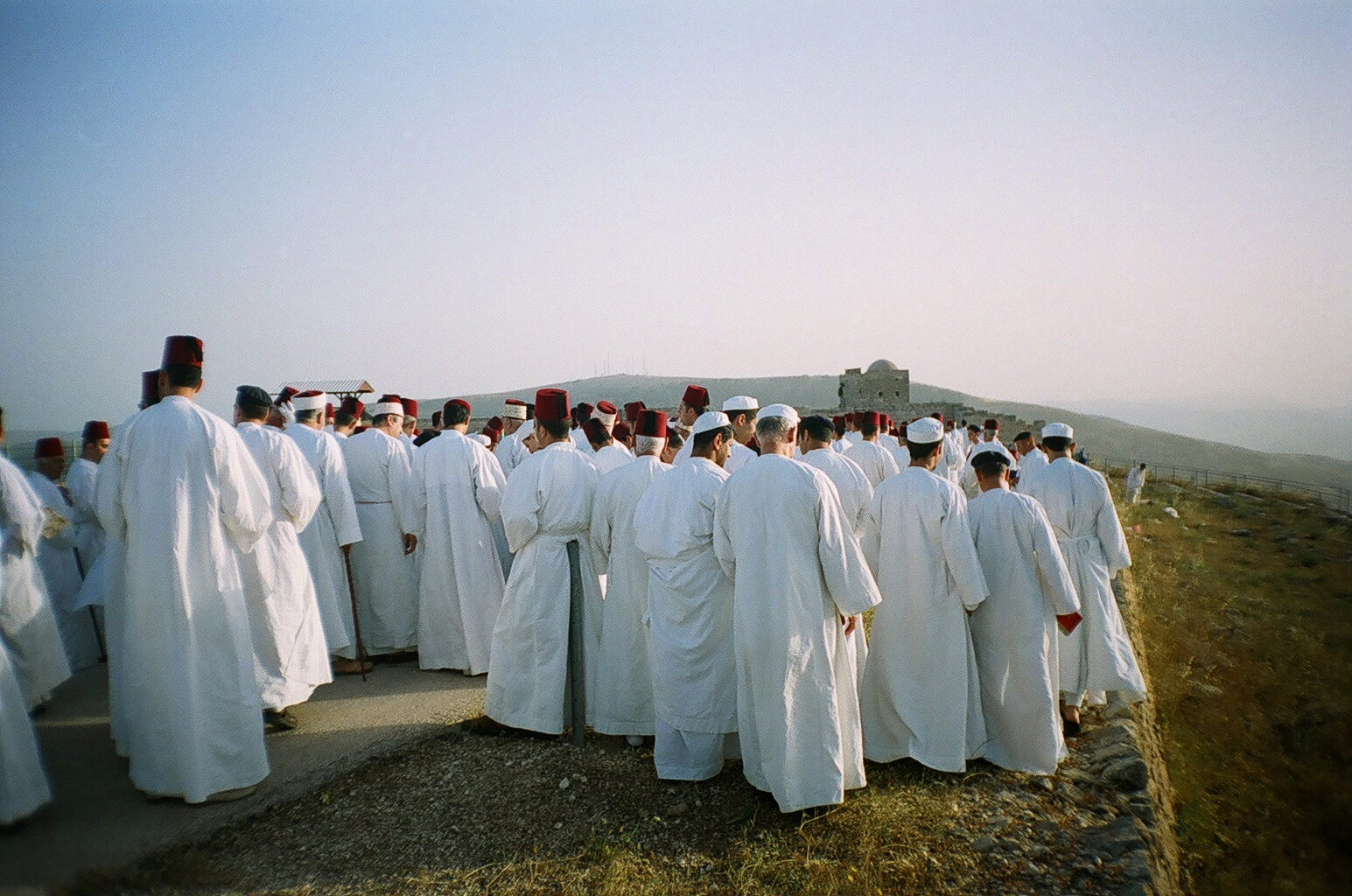 Samaritans on Mount Gerizim at Pentecost (3 June 2006). Background see the tomb of Sheikh Ghanem